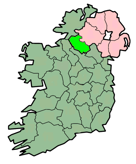 Location of County Fermanagh (Fear Manach) (light green) within Northern Ireland (pink) in the island of Ireland (green)